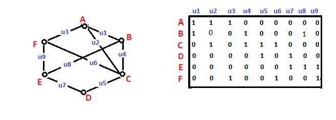 Ma trận liên thuộc vô hướng